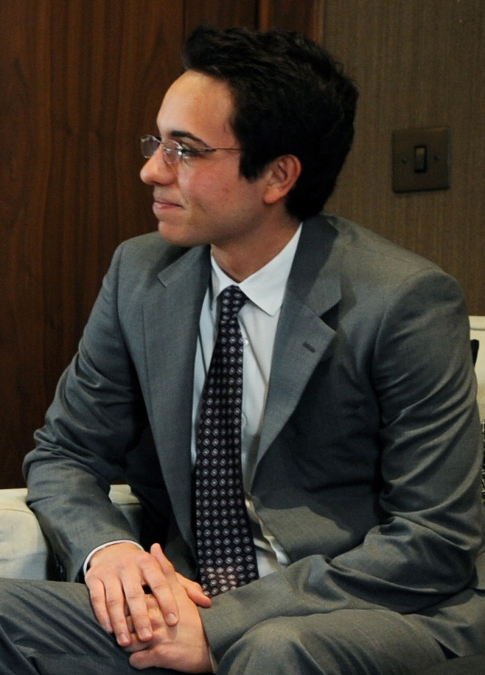 The Crown Prince of Jordan at the meeting with the US State Secretary